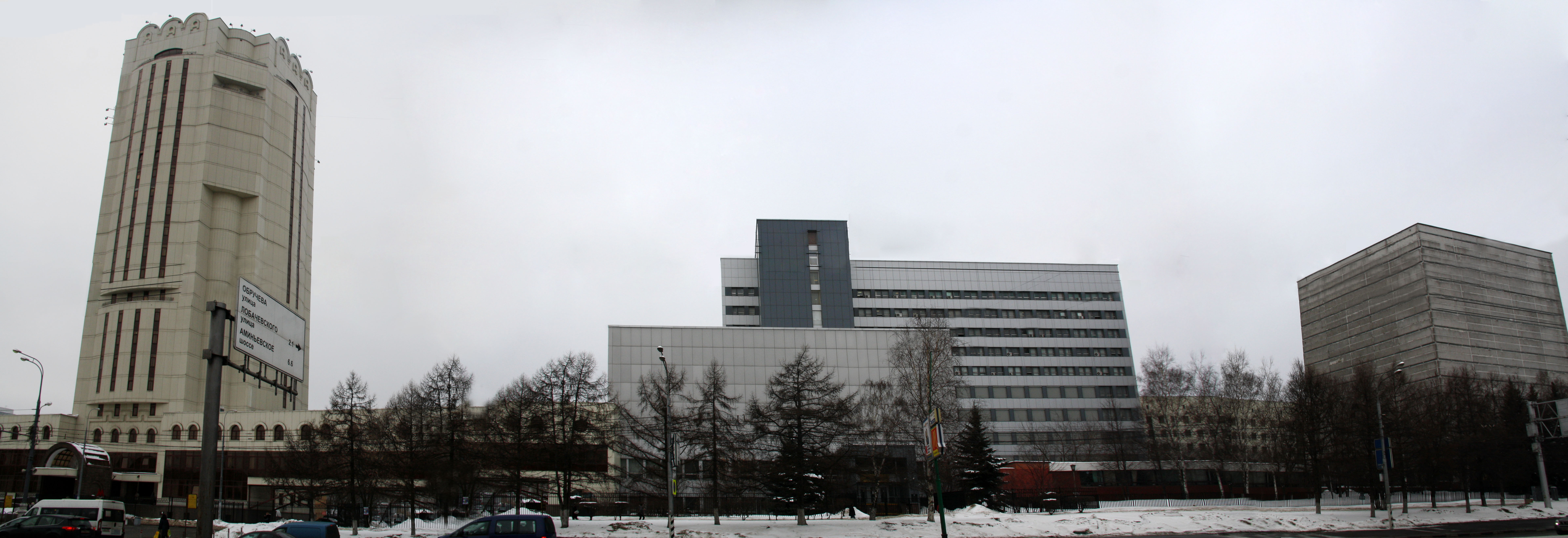 Центральный архив города Москвы